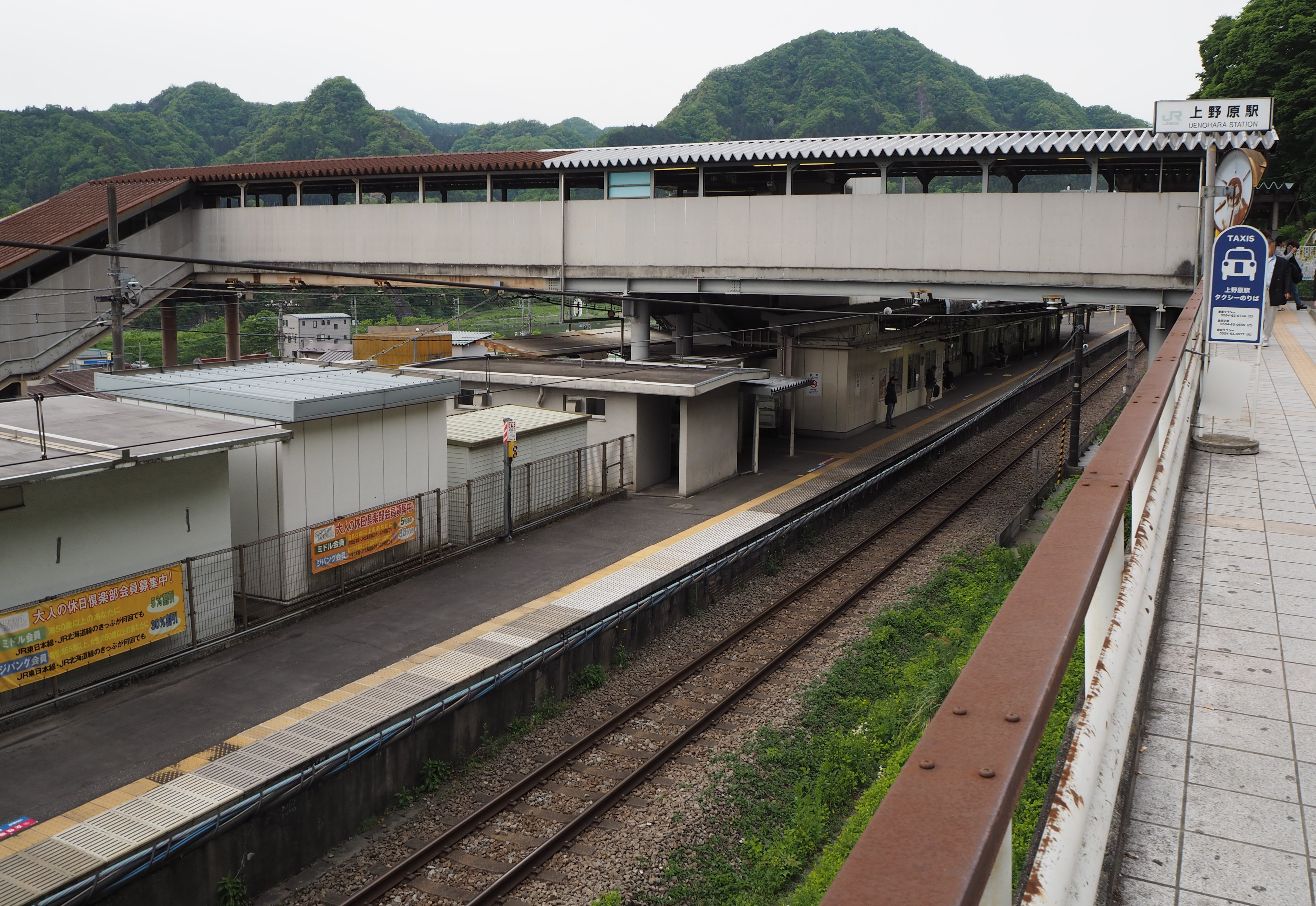 North Entrance of Uenohara Station